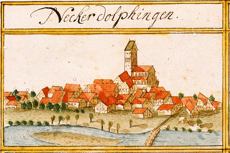 View of Neckartailfingen from the forest register books created by Andreas Kieser